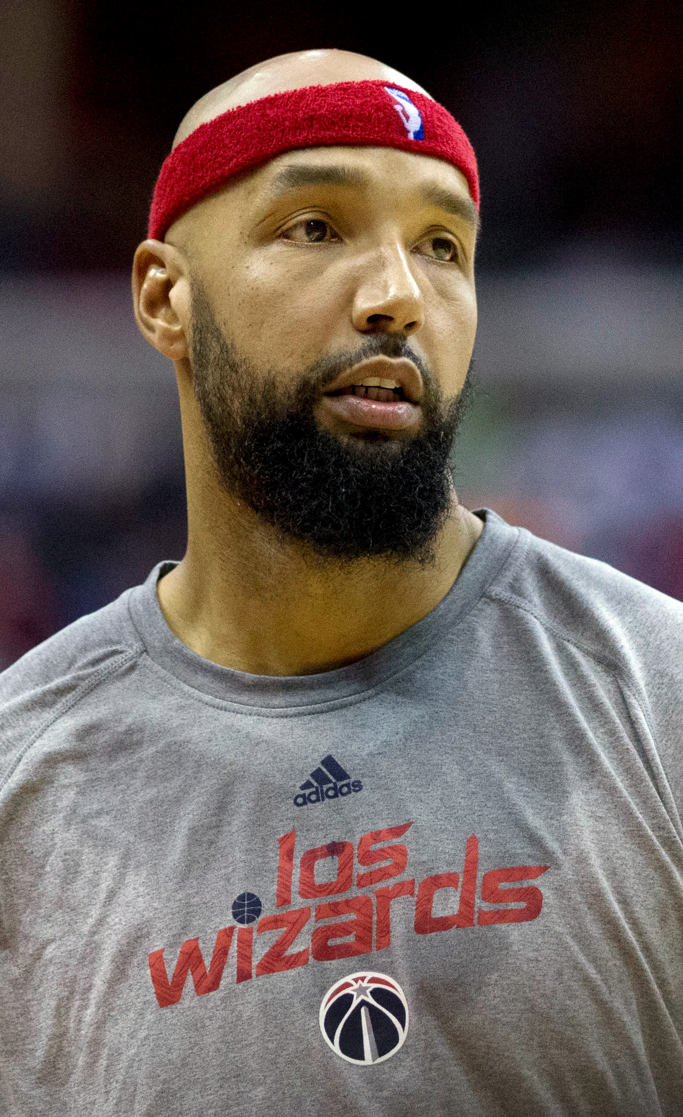 Nets at Wizards 3/15/14